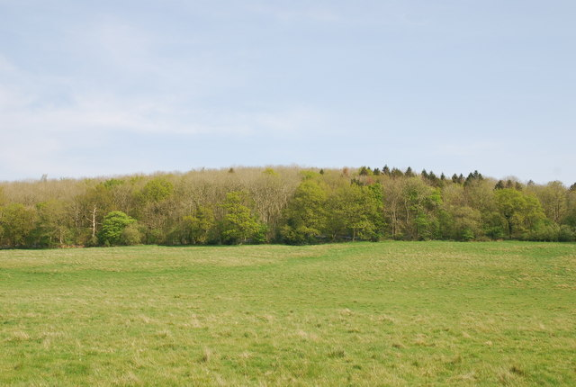 Duncliffe Wood Taken from the West.